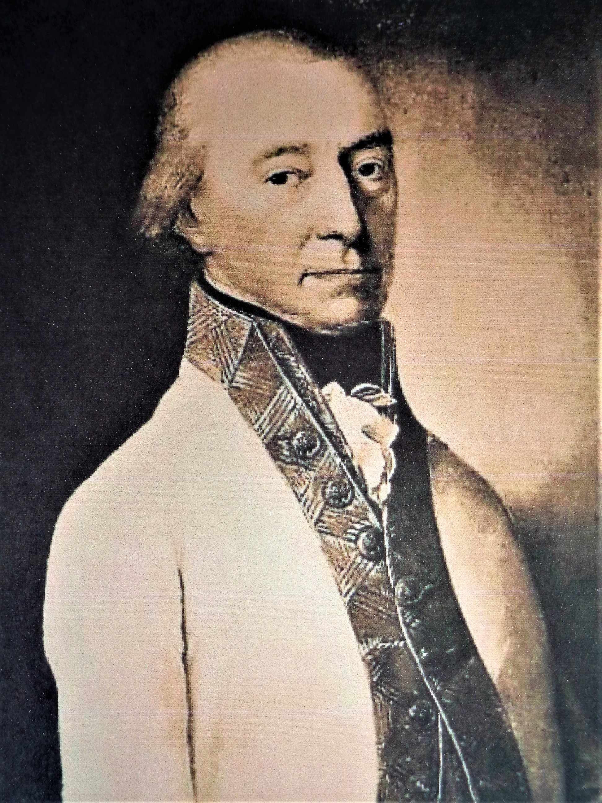 Juraj Antun/George Anthony Knežević/Knezhevich (*Gračac 1733 - †Vienna 1805), Baron of Saint Helen, Croatian nobleman and major-general of the Habsburg Monarchy imperial army